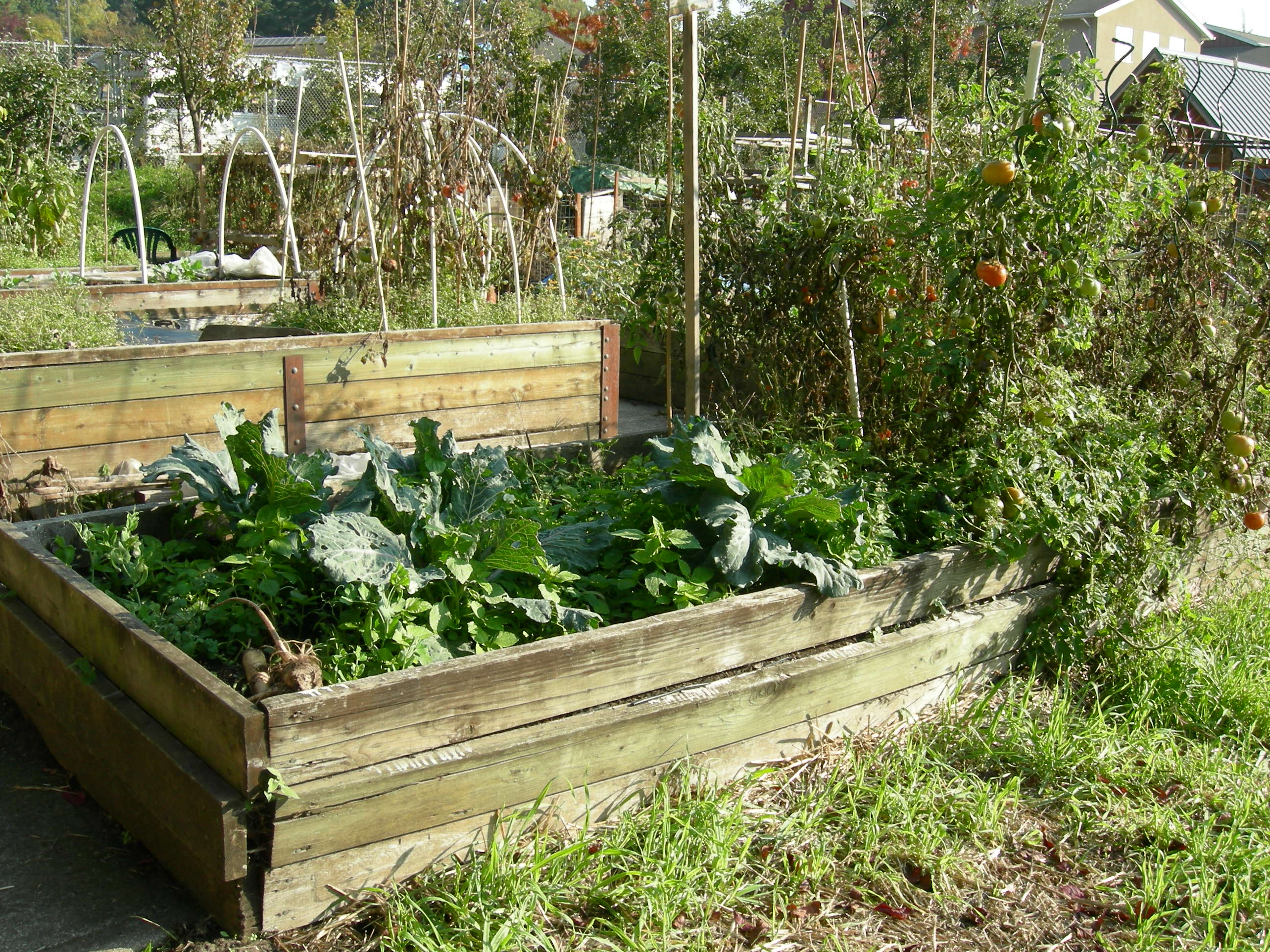 Picardo Farm, Wedgwood, Seattle, Washington. Seattle's first P-Patch community garden. Raised beds: allotment gardens for the handicapped.